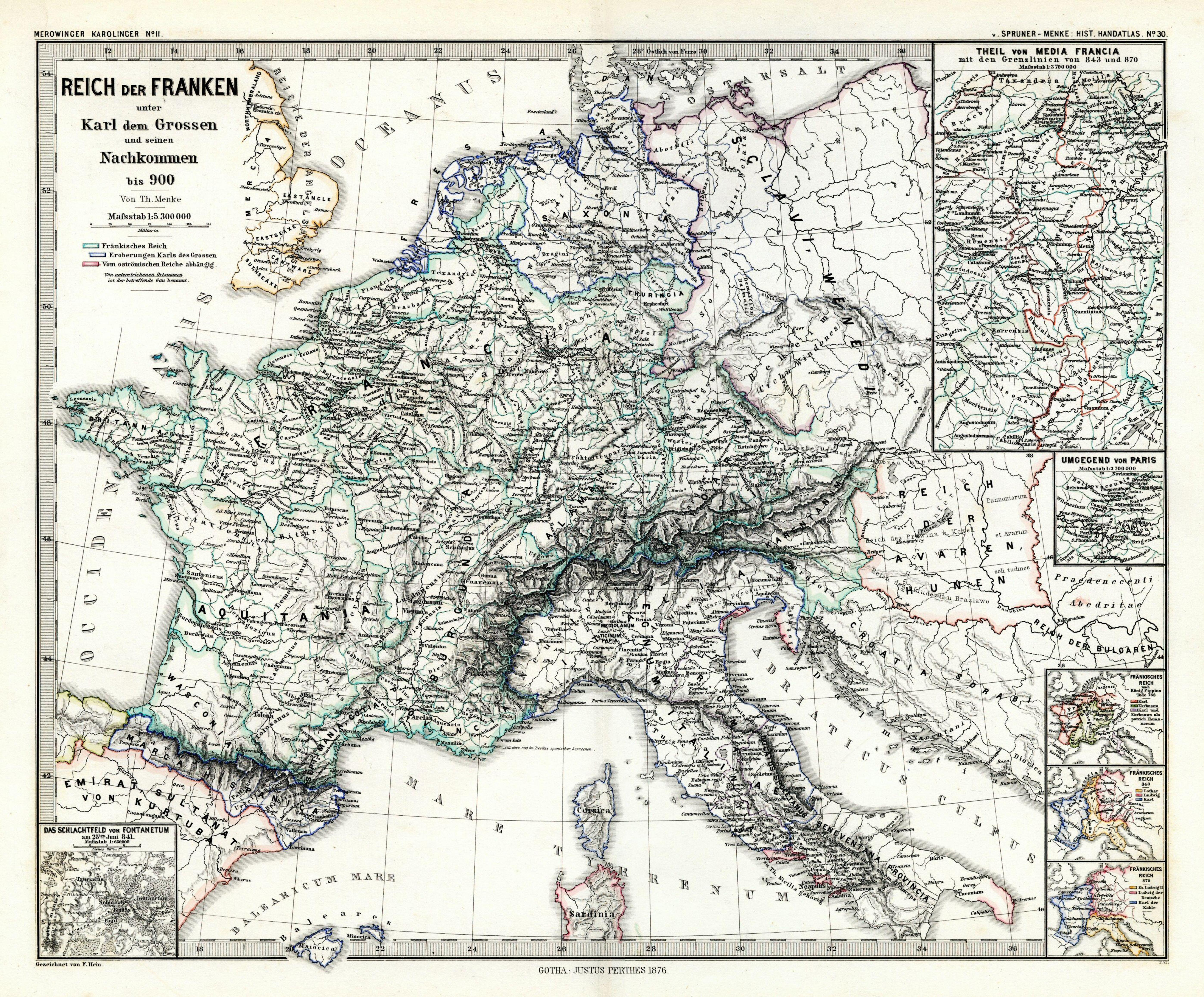 The Carolingian Empire under Charlemagne and his descendants, to 900.